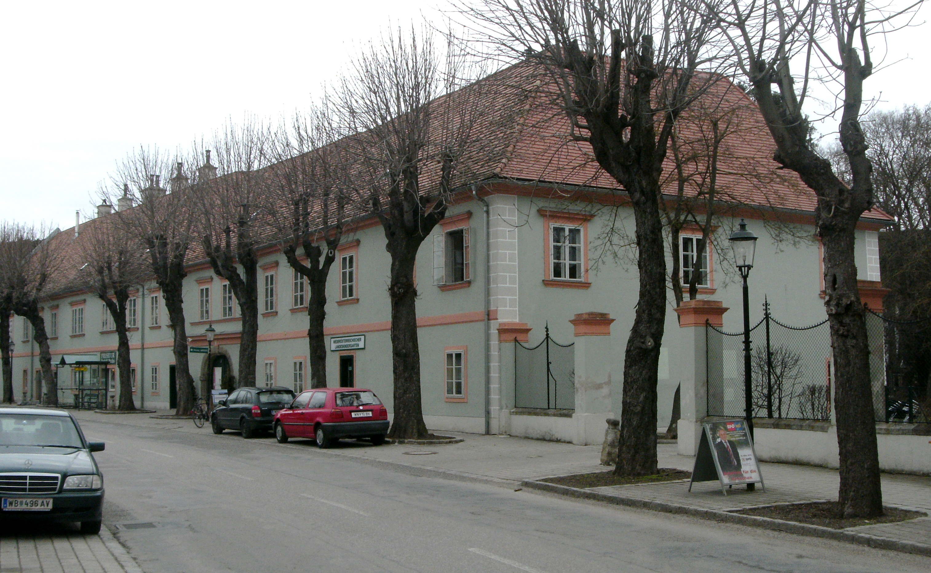 Fischau palace, located at Wiener Neustädter Straße, Bad Fischau, Lower Austria